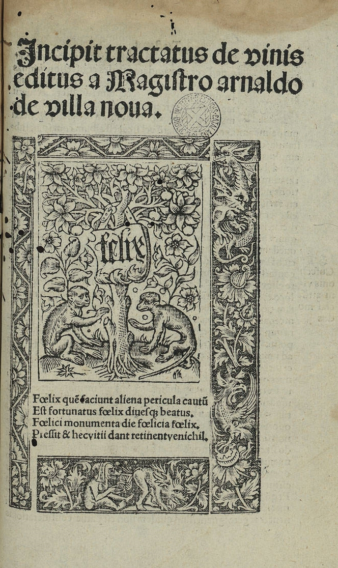 Title page of Tractatus de vinis, attrib. to Arnaldus de Villa Nova, Paris, c. 1500